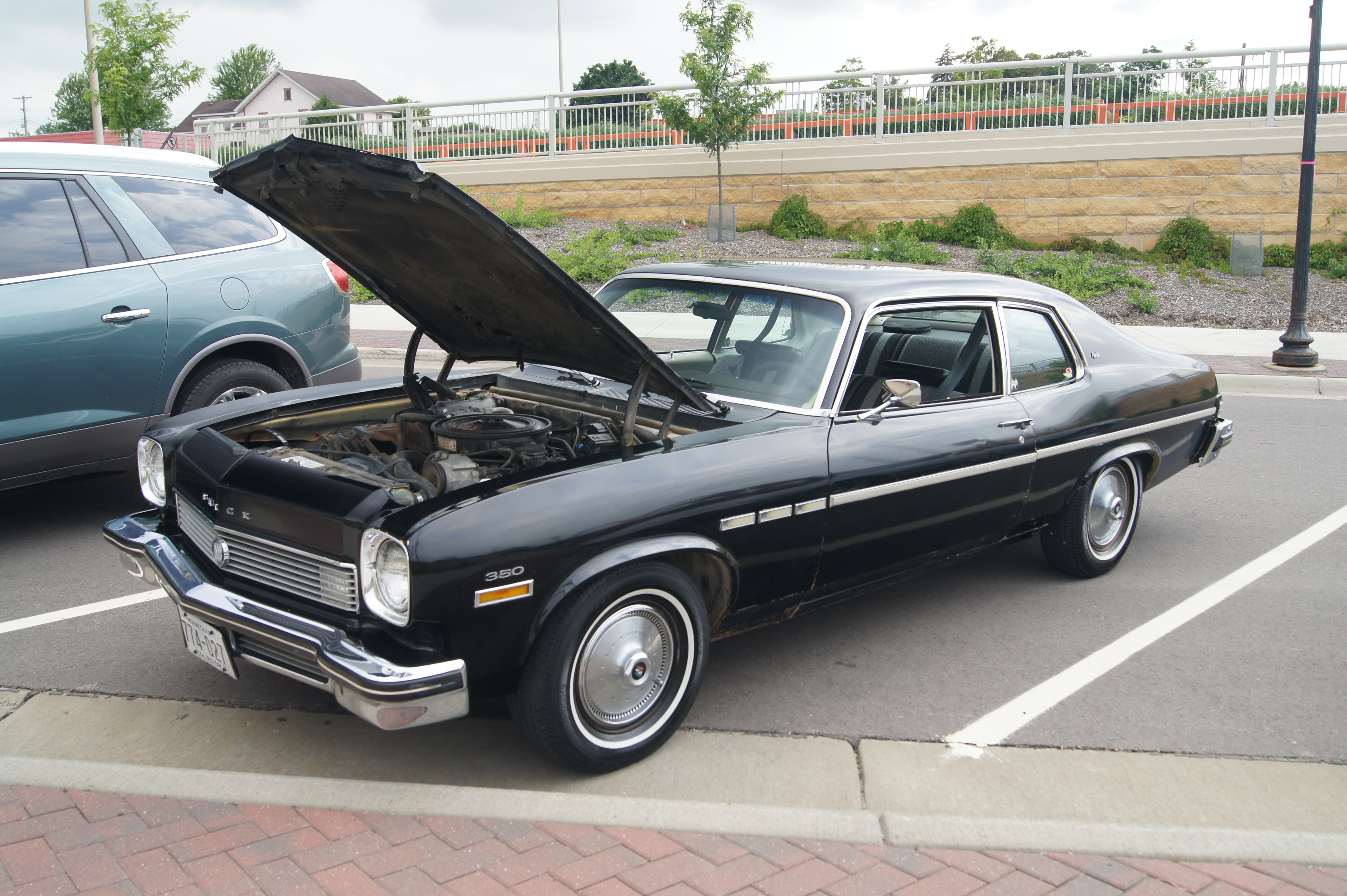 HISTORIC DOWNTOWN HASTINGS CRUISE-IN & CLASSIC CAR SHOW July 11, 2015 Click here for more car pictures at my Flickr site.